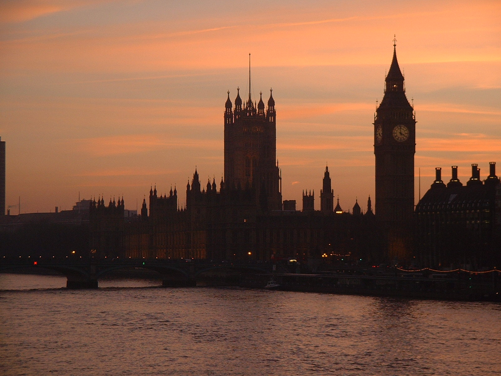 Replacement image. Self made free licence. 2003 Seabhcán 10:09, 1 February 2006 (UTC) Category:Images of London